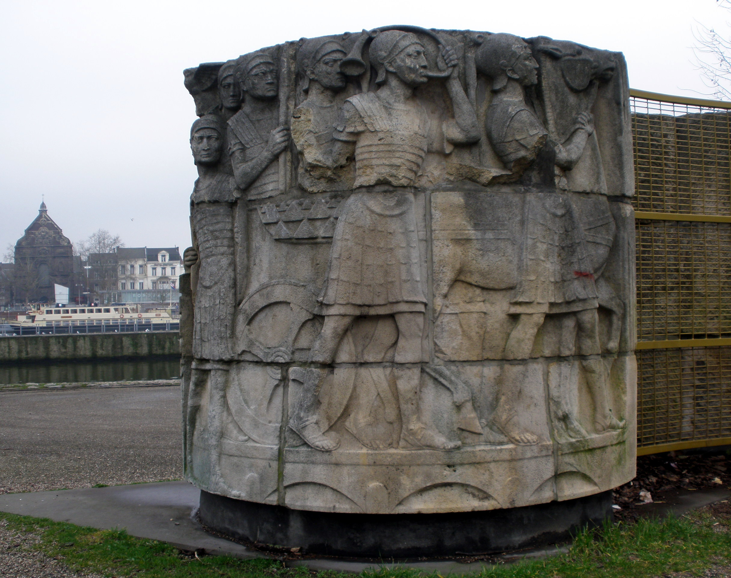 Maastricht, the Netherlands. Sculpted relief depicting the arrival of the Roman conquerors in Maastricht. The relief by Dutch sculptor Hendrik van den Eijnde was originally part of Wilhelminabrug, which was largely destroyed in WWII. Now in Kleine Griend (part of Griendpark).